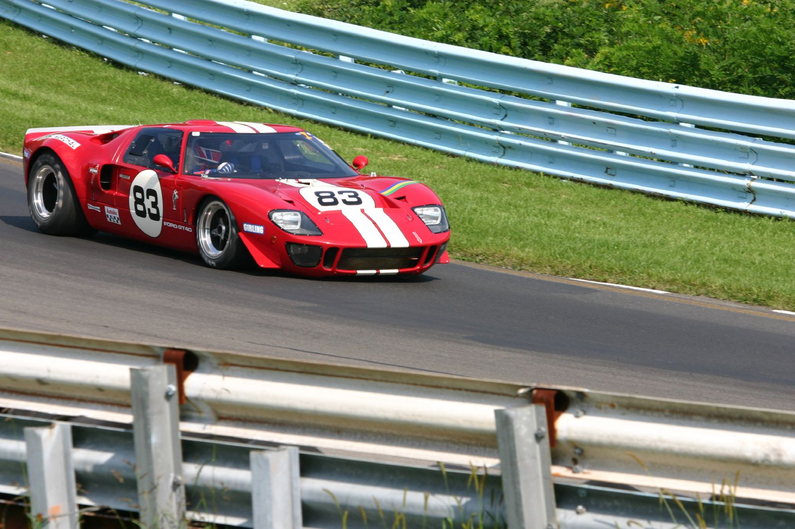 83 - 1969 Ford GT40 (5.0L) Archie Urciuoli Casey Key, FL